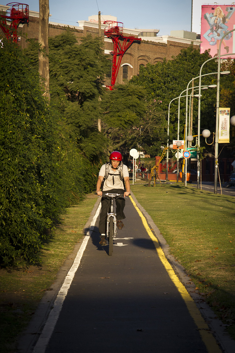 City Government of Buenos Aires' photostream, pretty hip